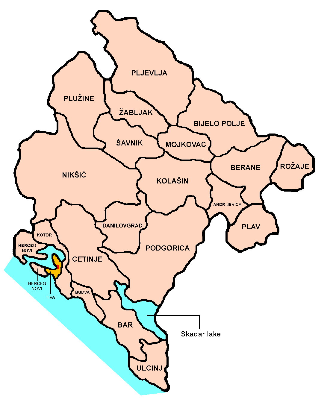 Location of Tivat town and municipality within Montenegro